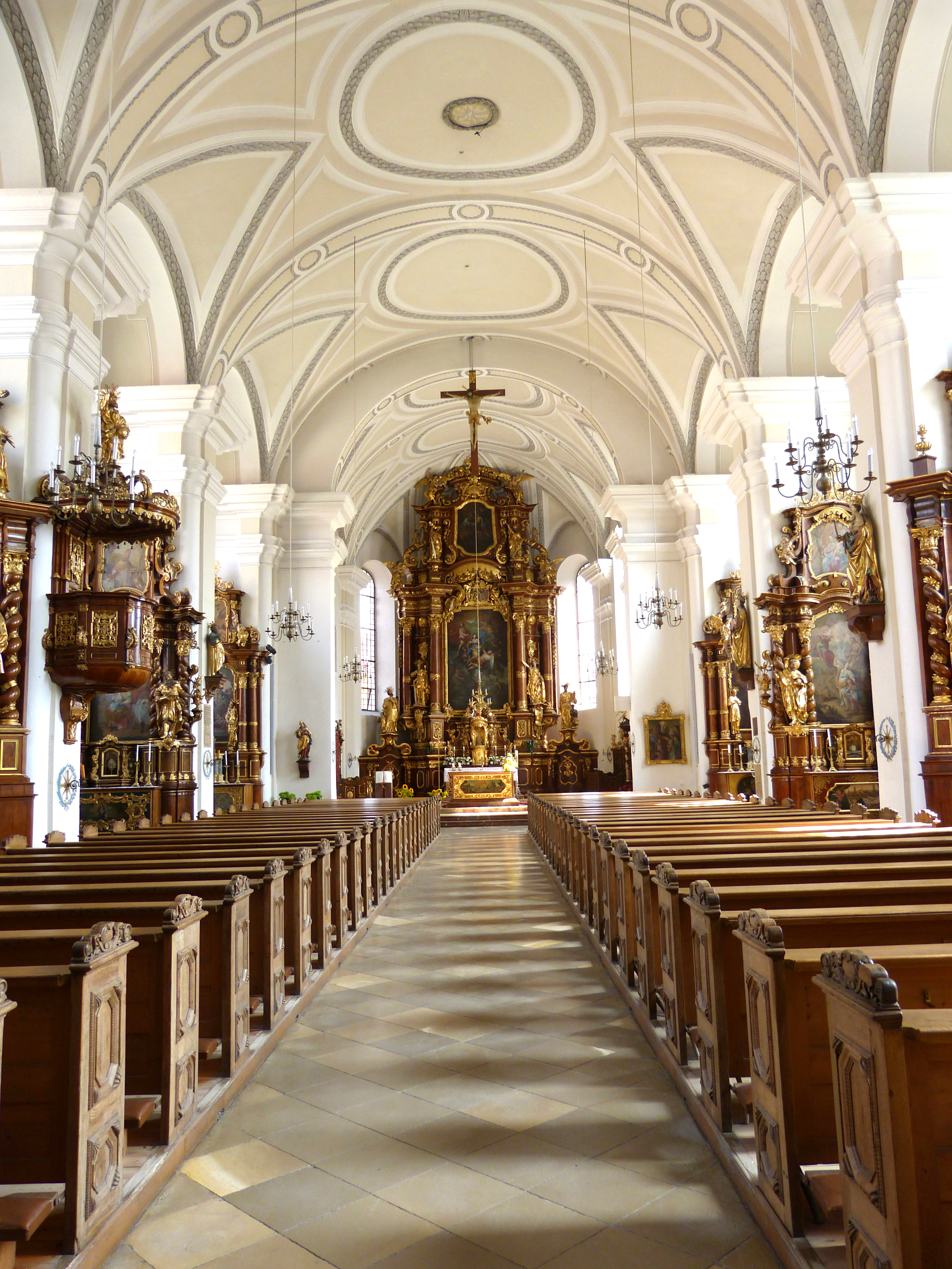 Landau an der Isar ( Lower Bavaria ). Mary Assumption parish church: Interior ( 1713 ).